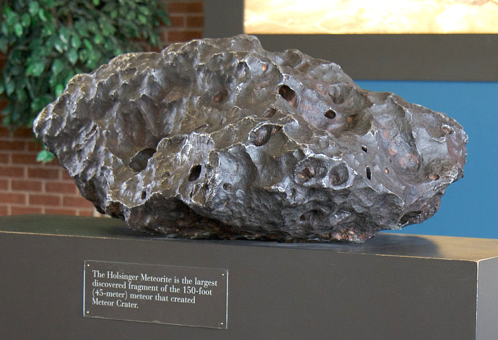 The biggest discovered Canyon Diablo meteorite fragment. At the Meteor Crater museum, AZ.